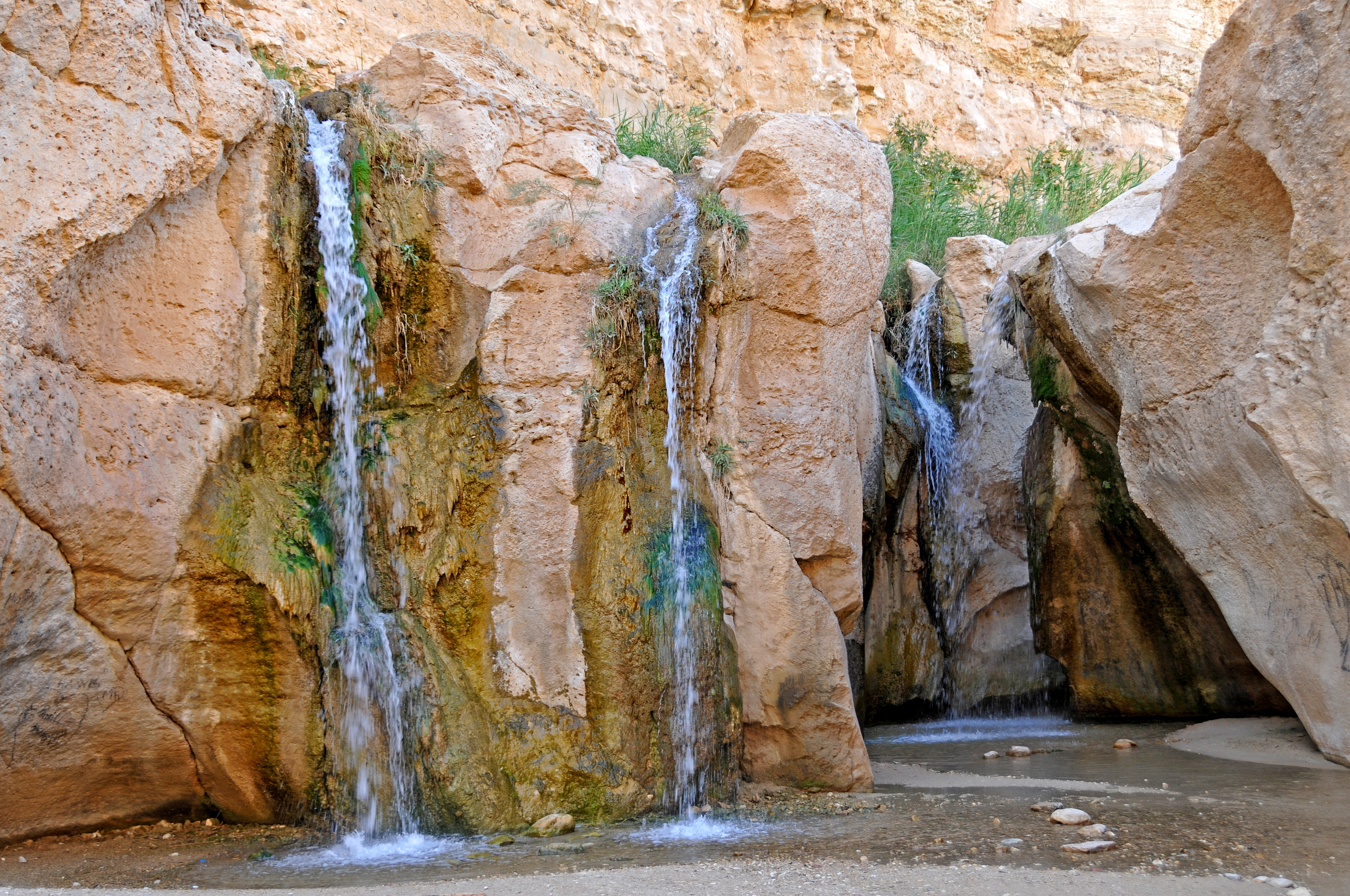 These waters fall were great, they are not very high, approx. 10 meters (30 feet). Tamerza is the largest mountain oasis of Tunisia. It lies in the mountains north of the salt lakes, and receives water from springs in the barren mountain. Spectacular effects between dead and living nature makes the area a gem.